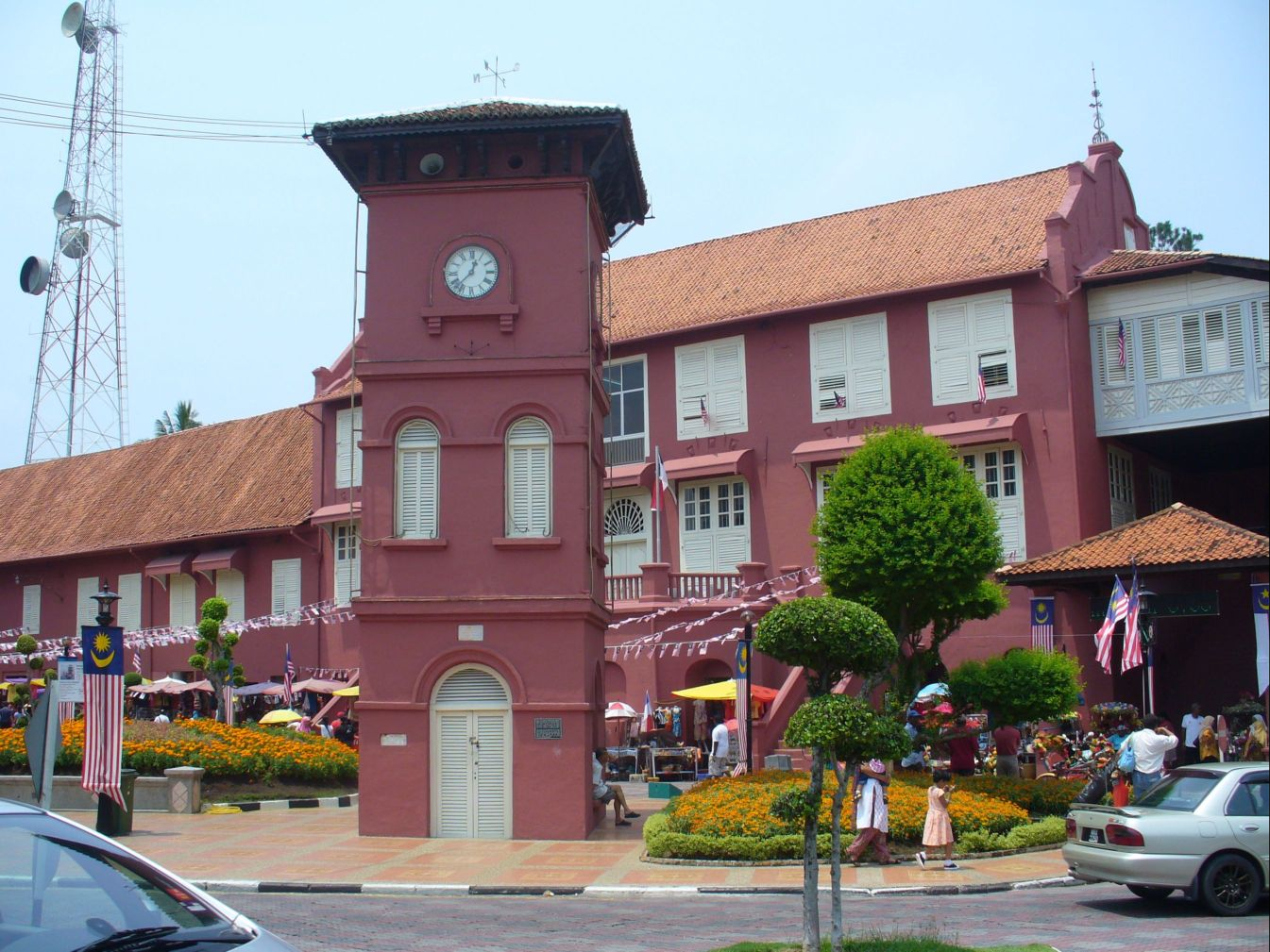 The Stadhuys in Malacca. Picture taken by Elizabeth Lisa John. .